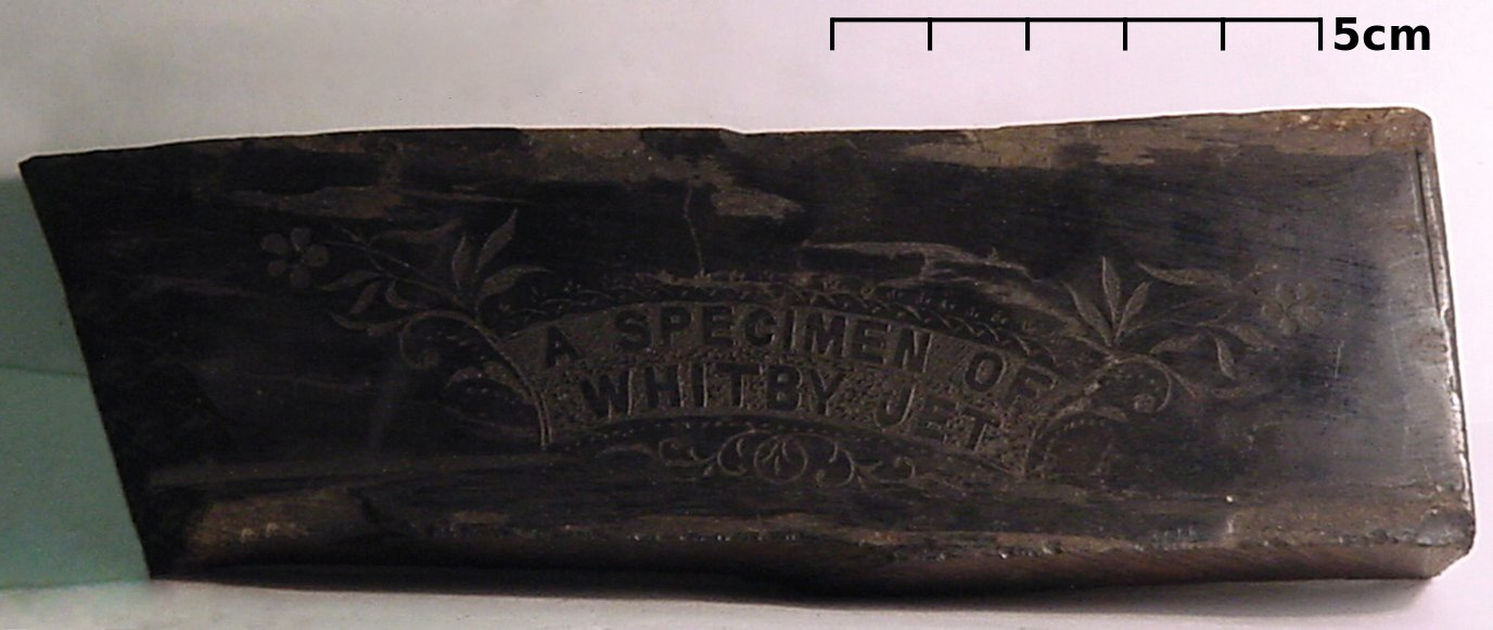 Caption said: "Jet (from Whitby, England, ~1895) 1-1021" Jet. U.S. quarter for scale. Collected in 1895 from Whitby, England. Mineral collection of Brigham Young University Department of Geology, Provo, Utah. Photograph by Andrew Silver. BYU index 1-1021.